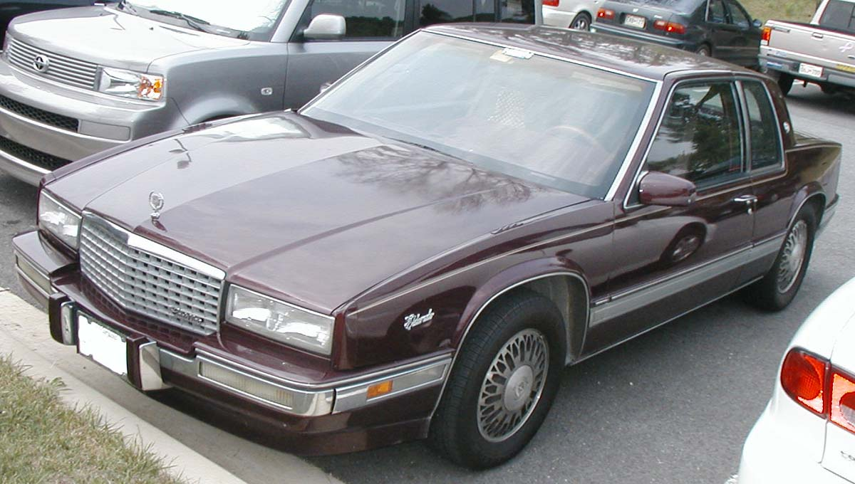 1986-1991 Cadillac Eldorado photographed in USA.